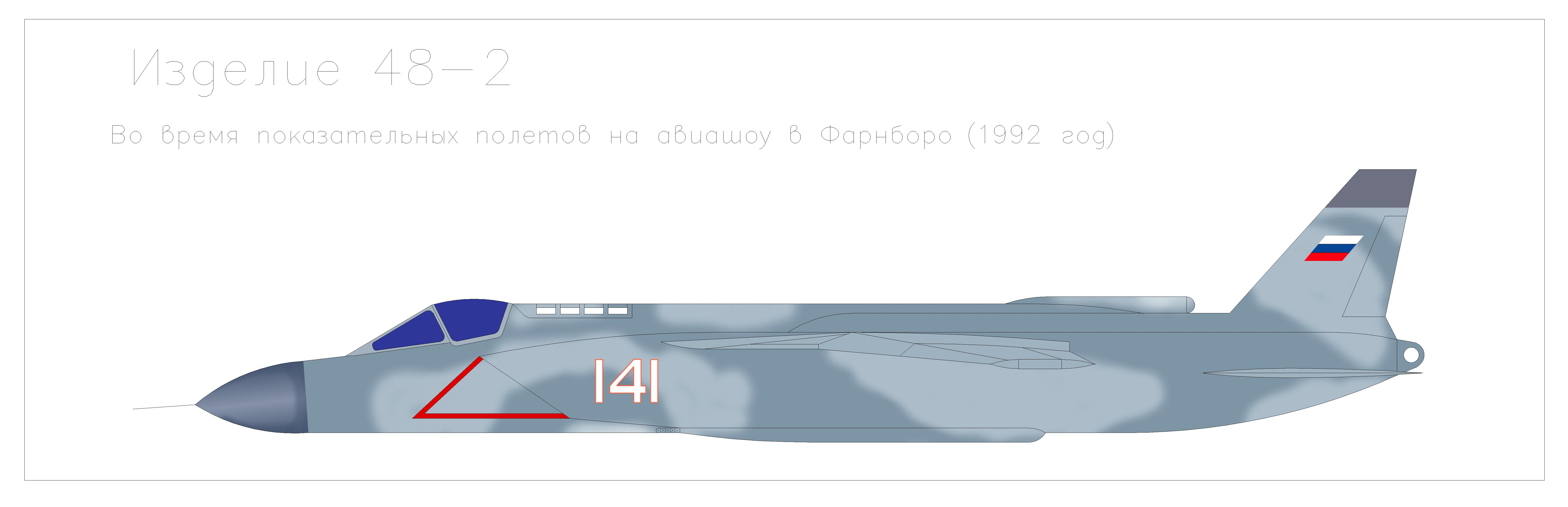 Painting scheme of izdeliye 48-2 during airshow at Farnborough (1992)